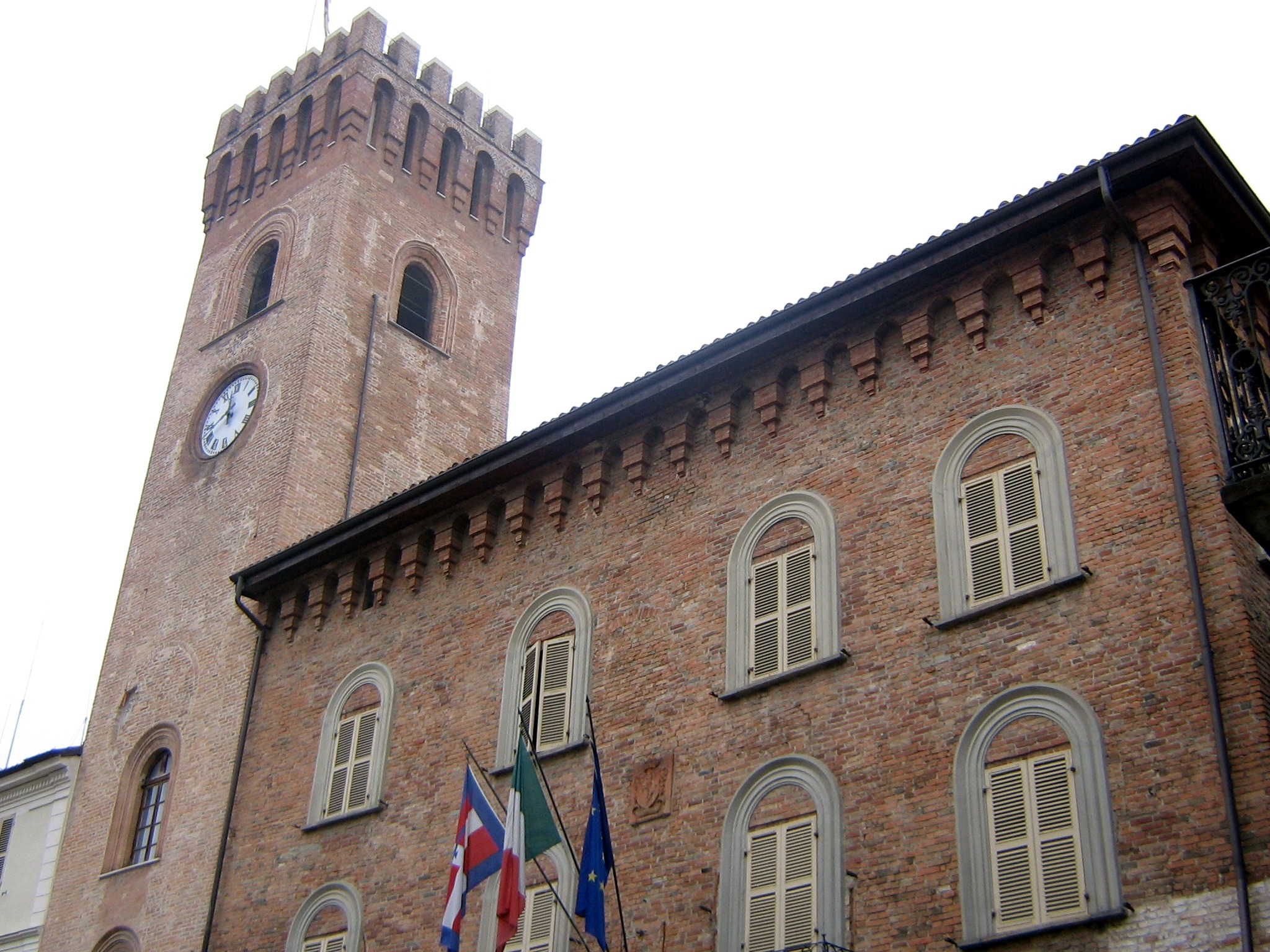 Nizza Monferrato, the civic palace with the tower